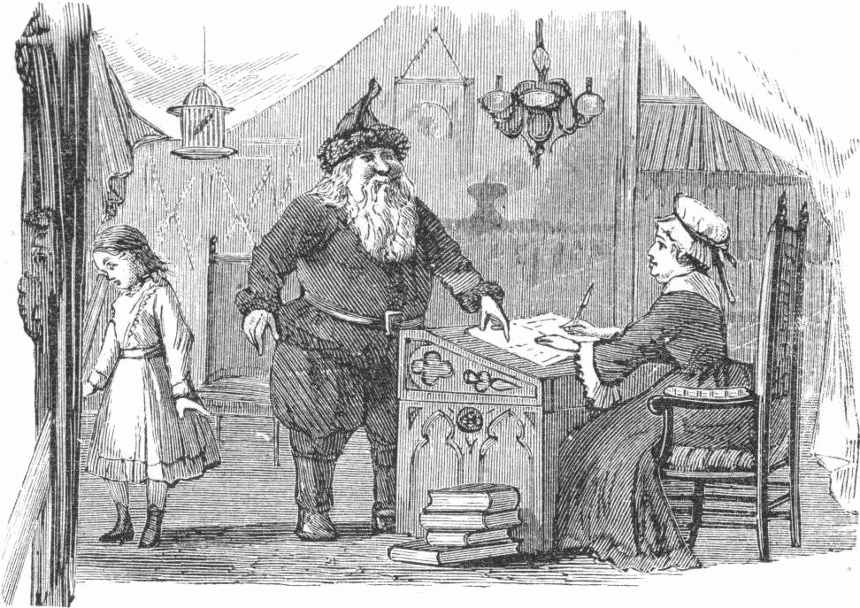 An engraved illustration of Santa Claus and what may be Mrs. Santa Claus from the 1878 book "Lill's Travels in Santa Claus Land and Other Stories", by Ellis Towne, Sophie May and Ella Farman. Artist unknown.